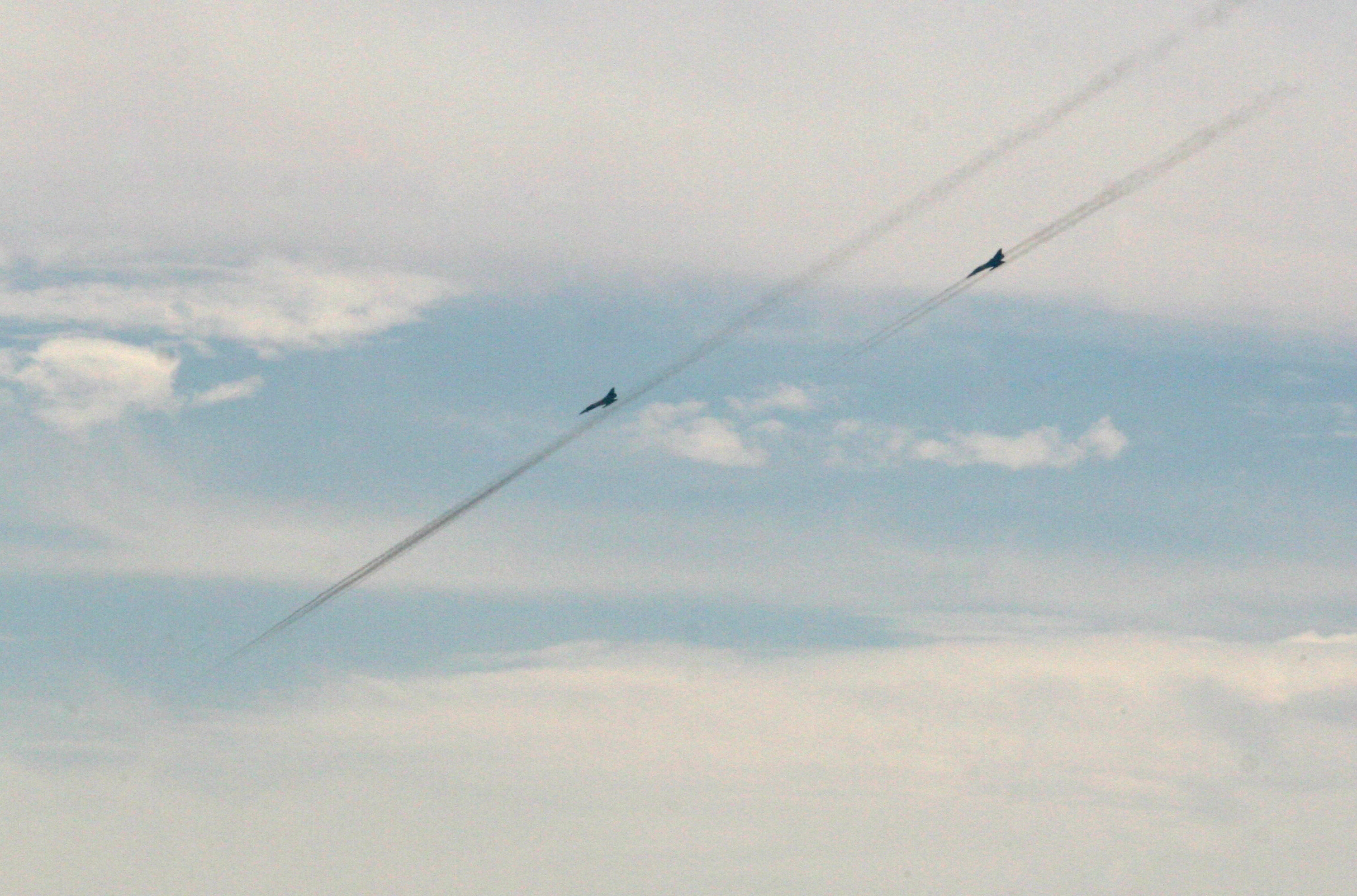 Two Egyptian Air Force Mirage fighter jets fire missiles during a Combined-Arms Live-Fire Exercise conducted as part of Exercise Bright Star 2009 in Egypt, Oct. 14, 2009.